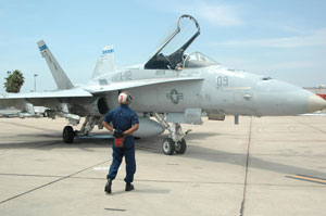 Sergeant Antonio D. Spencer, plane captain, Marine Fighter Attack Squadron 112, Marine Aircraft Group 41, 4th Marine Aircraft Wing, waits to begin function checks on an F/A-18A during the squadron's annual reserve training at Marine Corps Air Station Miramar, Calif., July 20 [2005]. Photo by: Sgt. J.L. Zimmer III Story Identification #: 200572813524